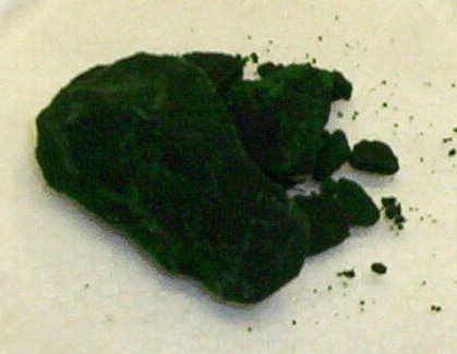 The dark green form of chromium(III) chloride hexahydrate